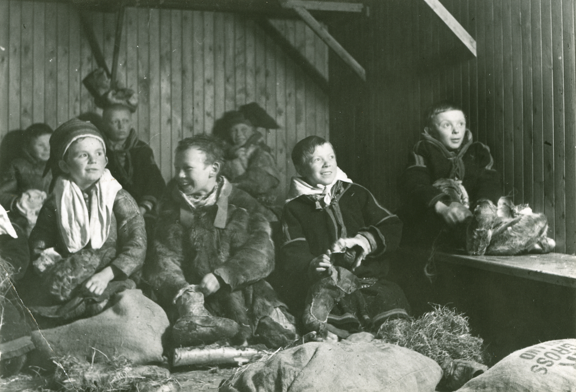 Meyer, Elisabeth Group of sami children photographed indoors while filling their shoes with dry sedges. Gelatin silver print, baryta NMFF.002541-8